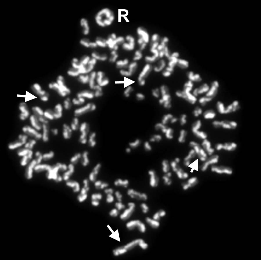 Metaphase spread of a cell line showing a ring chromosome (R) and several sister chromatid exchanges (SCEs), some of which are indicated by arrows. Original figure legend: Metaphase chromosome spread from an induced cell transfected with GFP-ΔC1 BLM. A large ring chromosome is shown at the top of the spread. The SCEs are visualized with acridine orange staining.